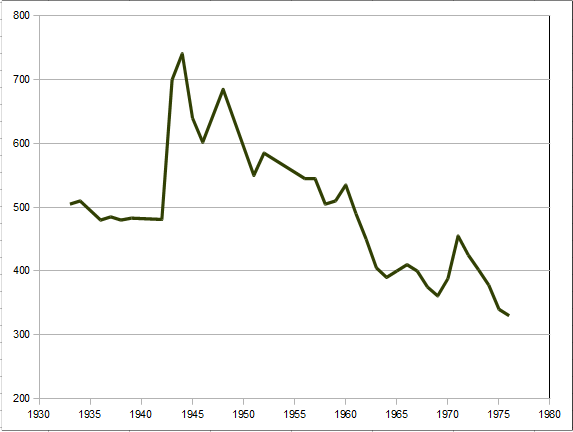 graph showing the number of workers at Wagenwerkplaats Amersfoort between 1933 and 1974